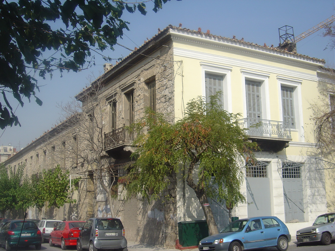 Kantakouzinos - Metaxourgio mansion in AThens, Greece by Christian Hansen